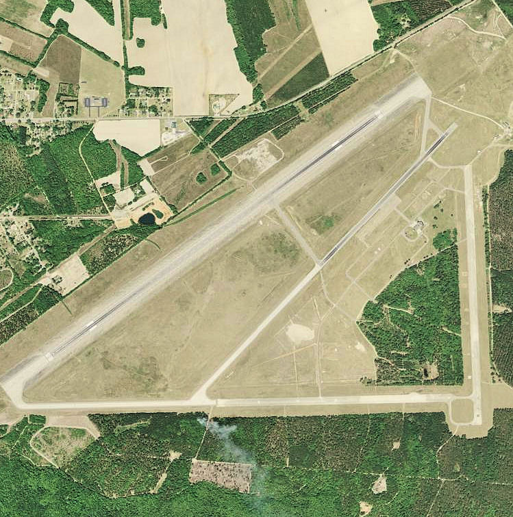 USGS digital orthophoto of North Auxiliary Airfield in South Carolina